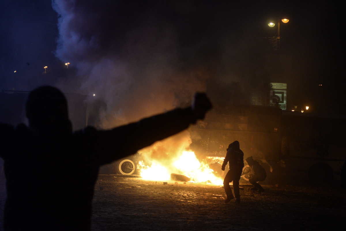 Radically oriented protesters throwing Molotov cocktails in direction of Interior troops positions. Dynamivska str. Euromaidan Protests. Events of Jan 19, 2014-2